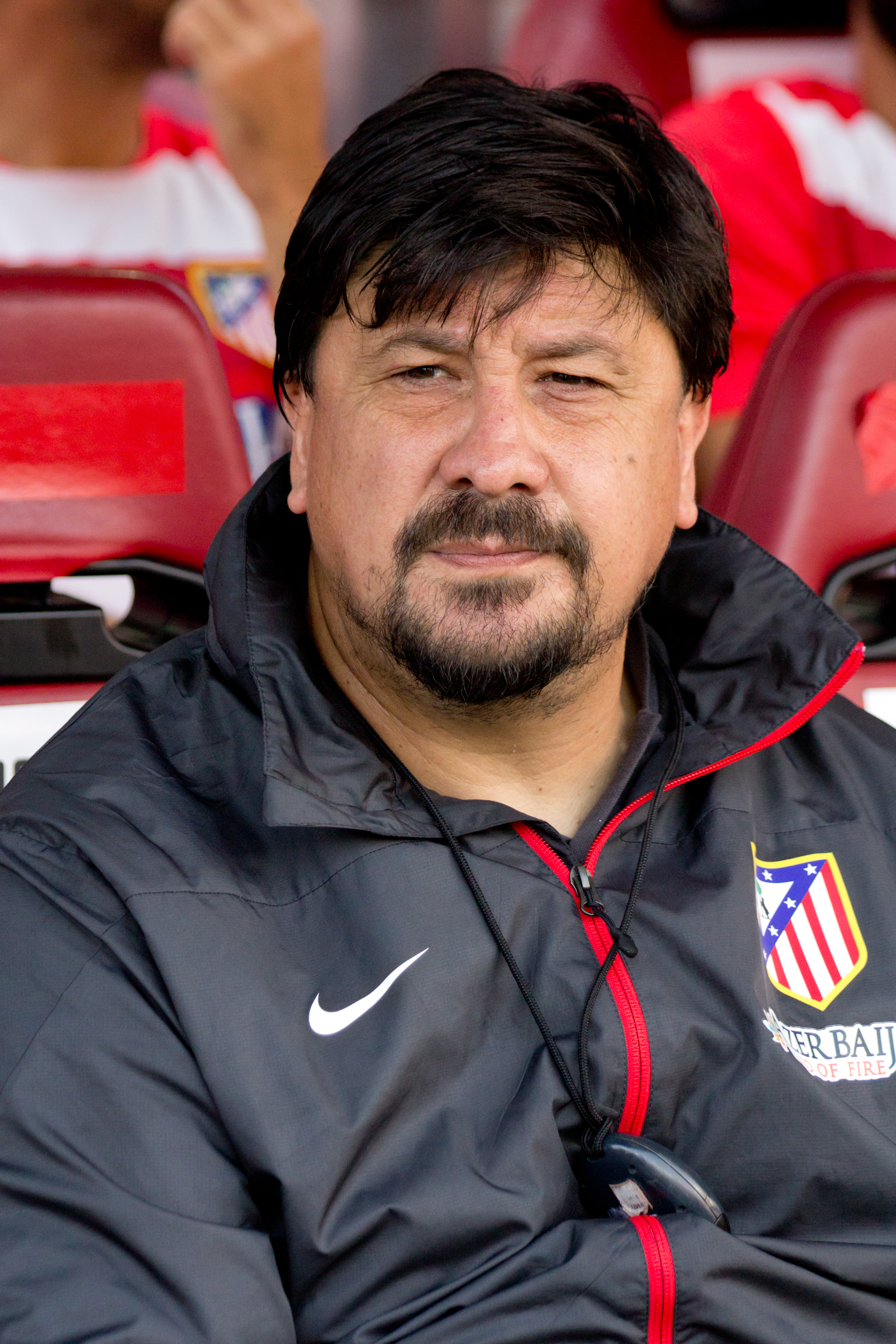 Exfootballer Germán Burgos, as second manager of Atlético de Madrid.